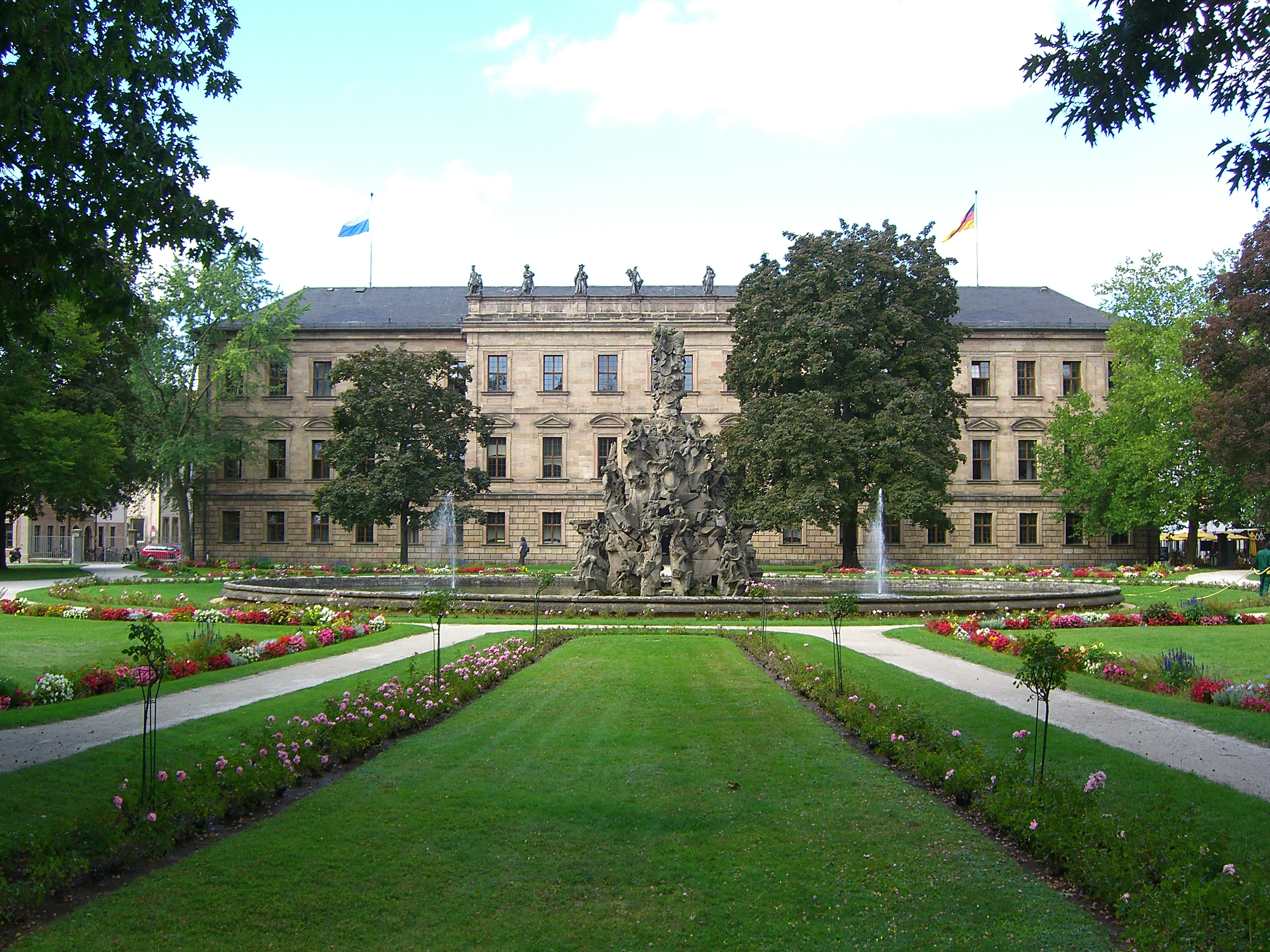 Backside of the manor-house of Erlangen, Germany, viewed from the Schlosspark.